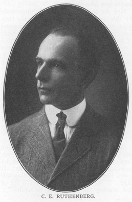 Charles Emil Ruthenberg, 1910